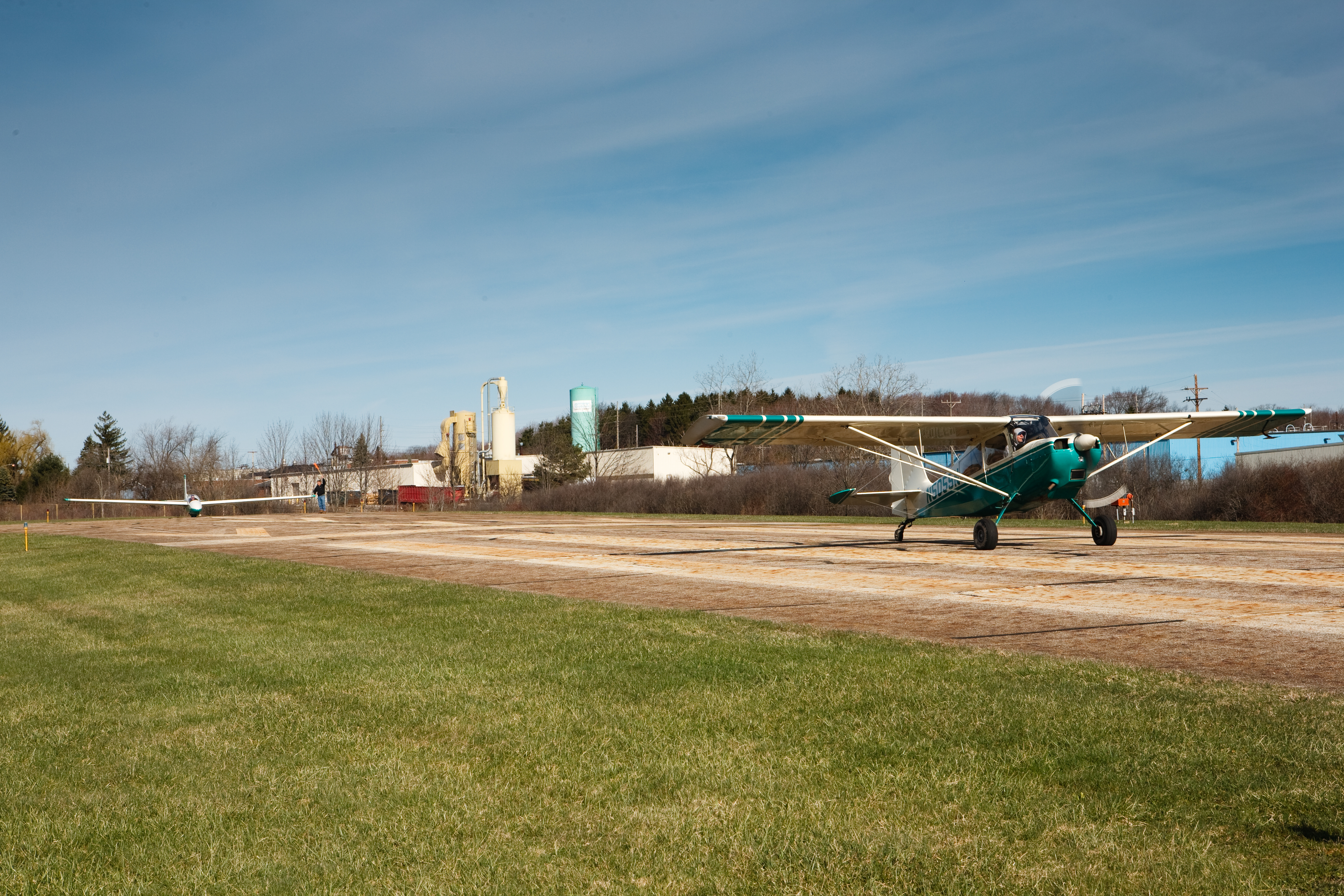 Airplanes on the runway at Geauga County Airport in Middlefield, Ohio.